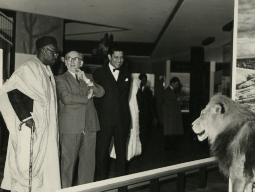 In the Tanganyikan section at the Commonwealth Institute with Mr. Kenneth Bradley, C. M. G., (centre) Director of the Institute, and Chief Arthur Prest,(right) Acting High Commissioner for the Federation of Nigeria. - guess at 1955 for year Location: Nigeria Our Catalogue Reference: Part of CO 1069/82 This image is part of the Colonial Office photographic collection held at The National Archives, uploaded as part of the Africa Through a Lens project. Feel free to share it within the spirit of the Commons. Our records about many of these images are limited. If you have more information about the people, places or events shown in an image, please use the comments section below. We have attempted to provide place information for the images automatically but our software may not have found the correct location. Alternatively you could use the Suggestify tool to suggest the location of a picture. For high quality reproductions of any item from our collection please contact our image library